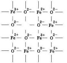 Kation defect in Ferum Oxide crystal.